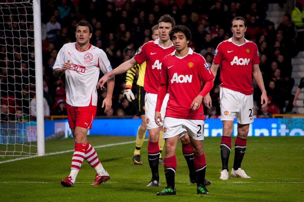 Manchester - Old Trafford - Manchester United vs Crawley Town